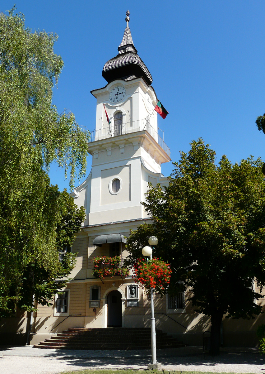 The town hall in Nagykőrös (Hungary)